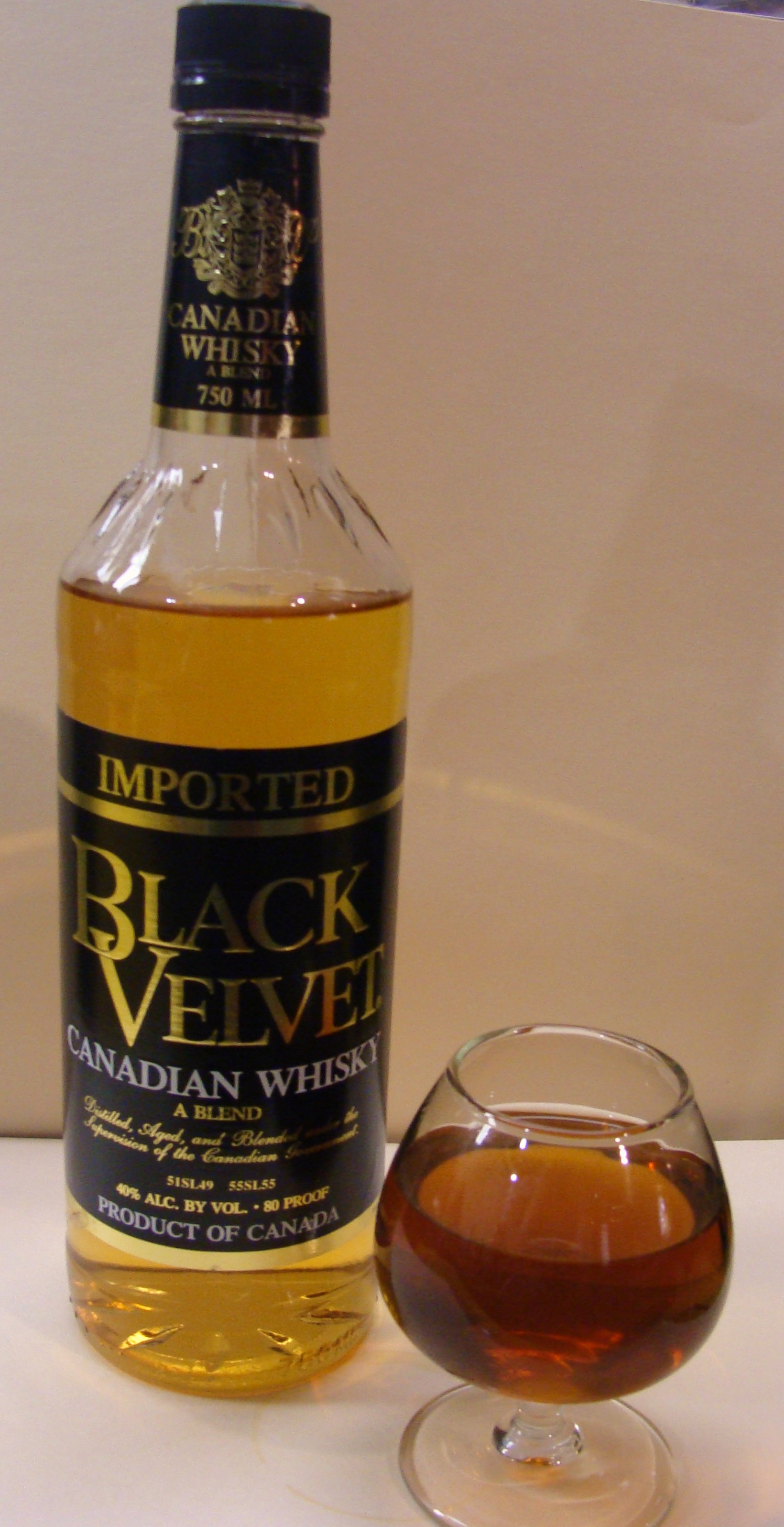 This is my own work. Photo by Craig Duncan. It is a photo of a bottle of bourbon from my own bourbon collection. Taken on 02/12/11 and uploaded on 02/13/11. It is FREE for others to use with no recourse.